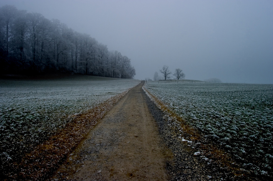 Dietschiberg in February 2006